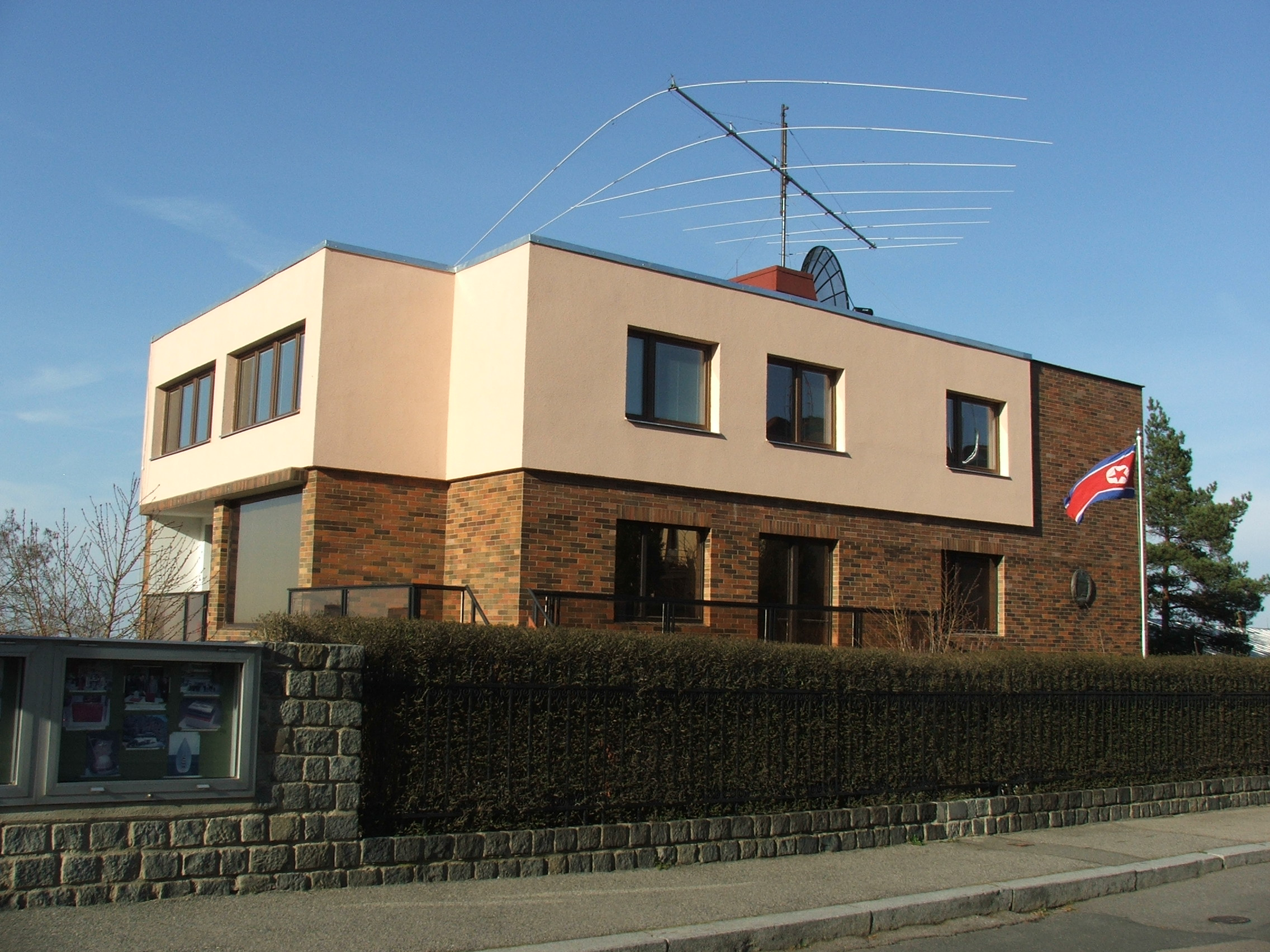 Embassy of North Korea - Democratic People's Republic of Korea in Prague - Veleslavín, Na Větru street, Czechia